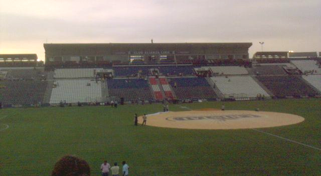 Alianza Lima's Stadium